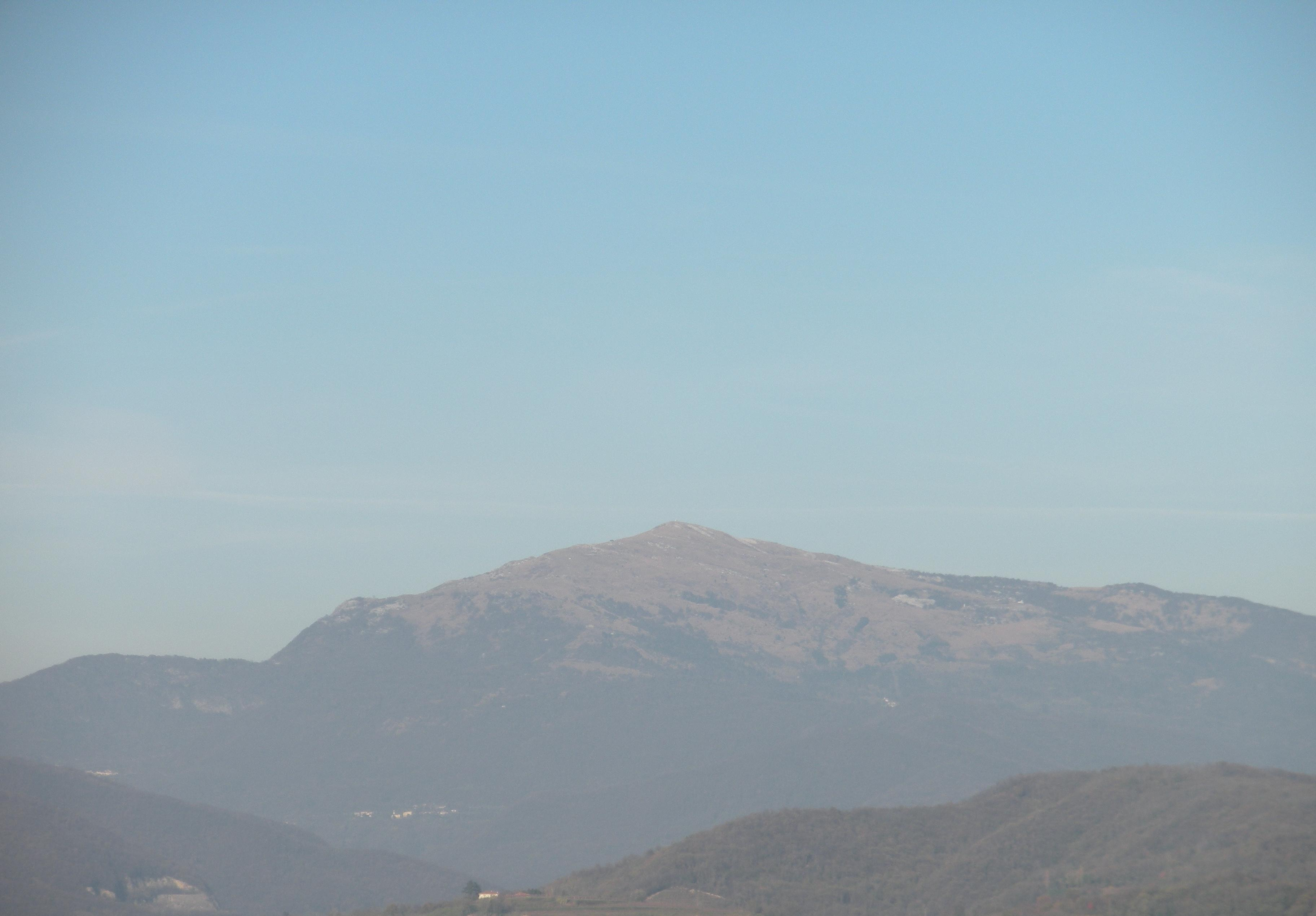 Matajur Mountain